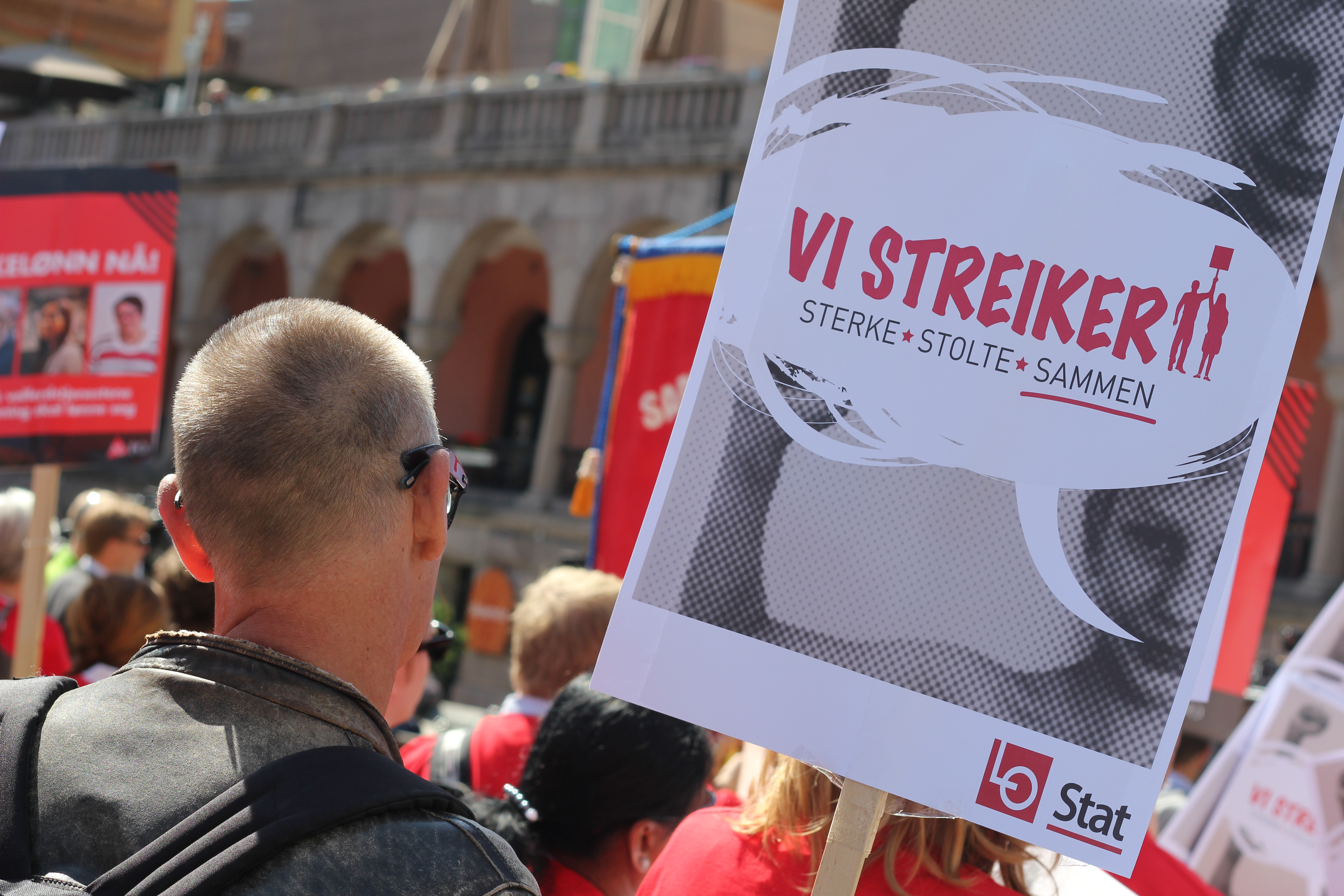 A member of the Norwegian trade union LO Stat during a strike rally in Oslo in 2012.